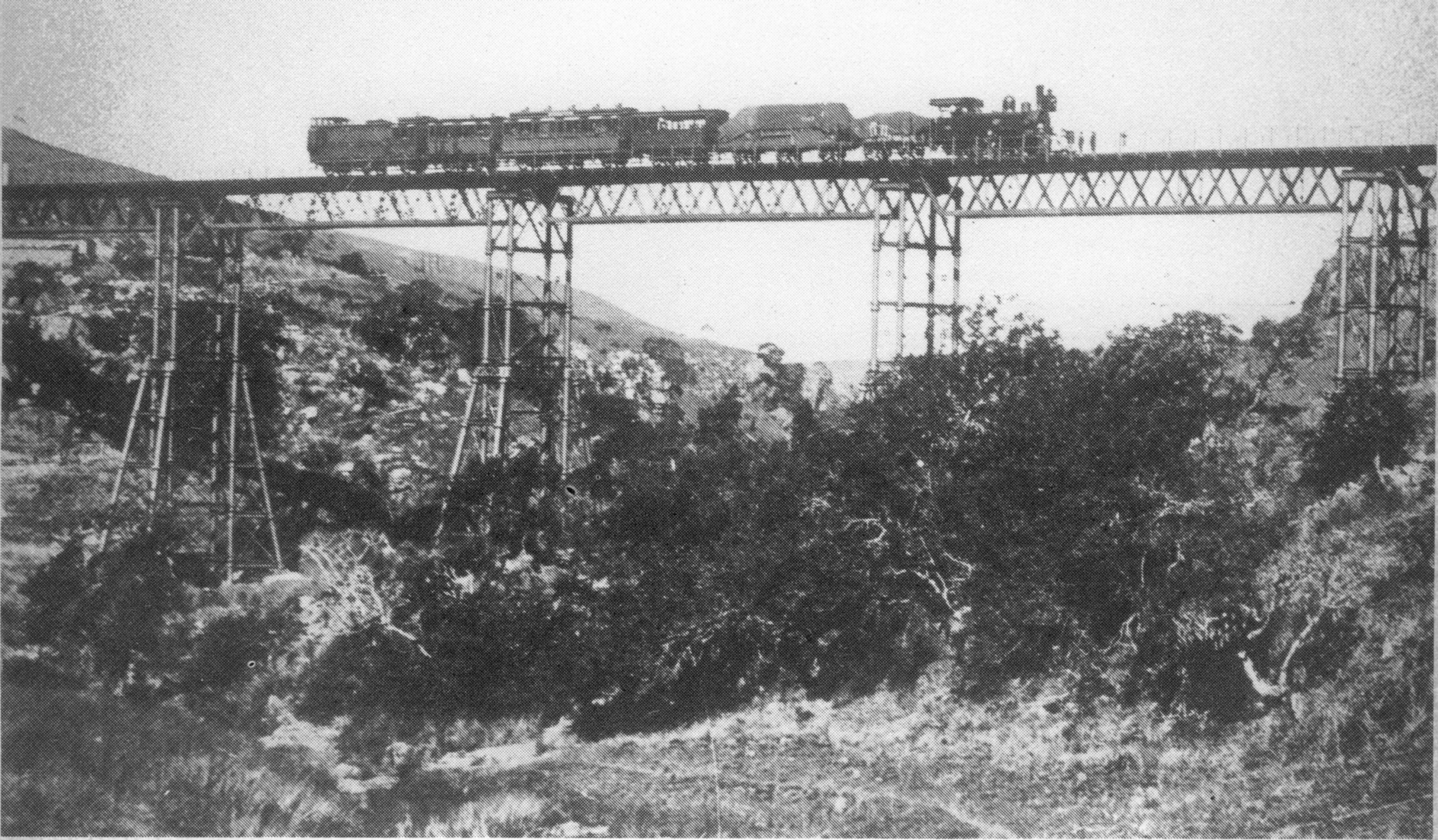 Natal Government Railway 2-6-0T of 1877 on Inchanga Viaduct